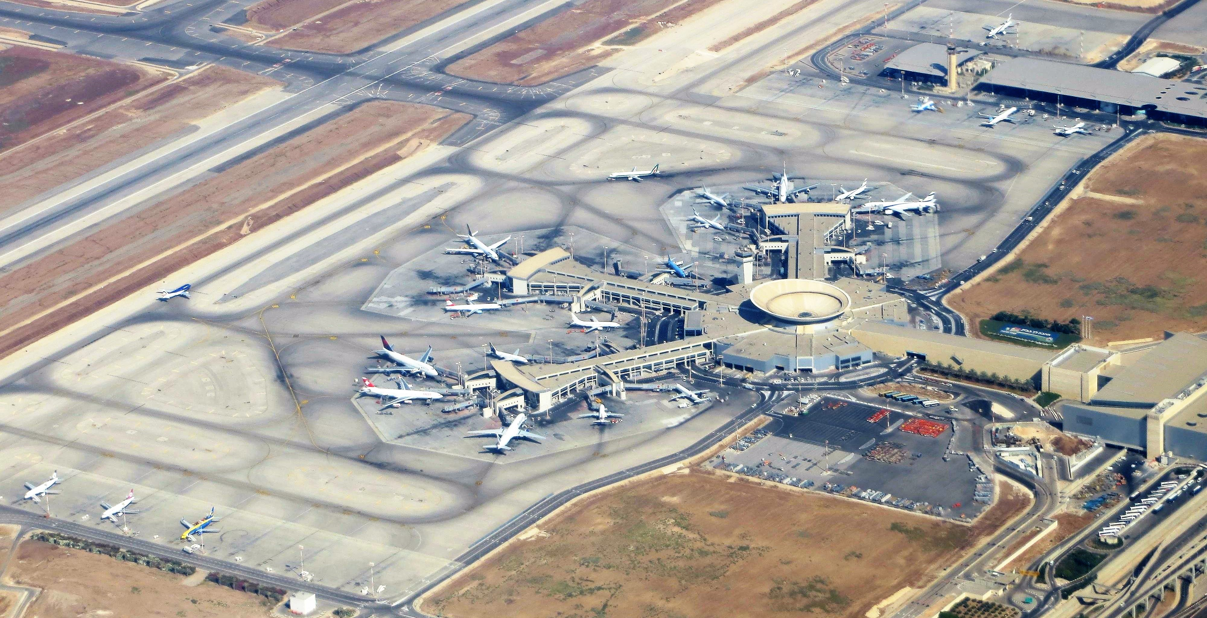 Overflying Ben Gurion Airport